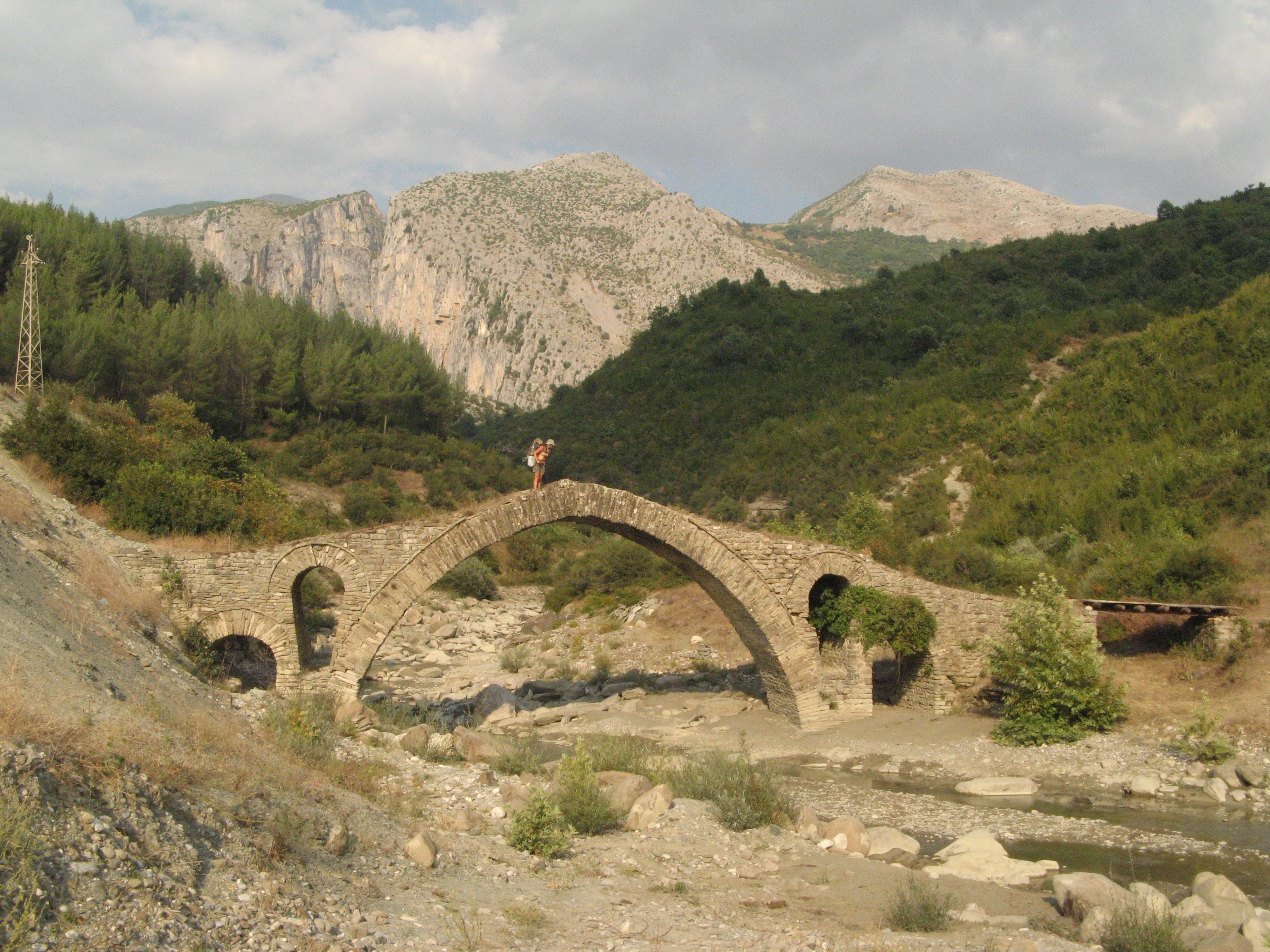 Ottoman bridge Ura e Kasabashit near the city Çorovodë crossing the river Çorovodë. Behind the Gradec canyon is visible.